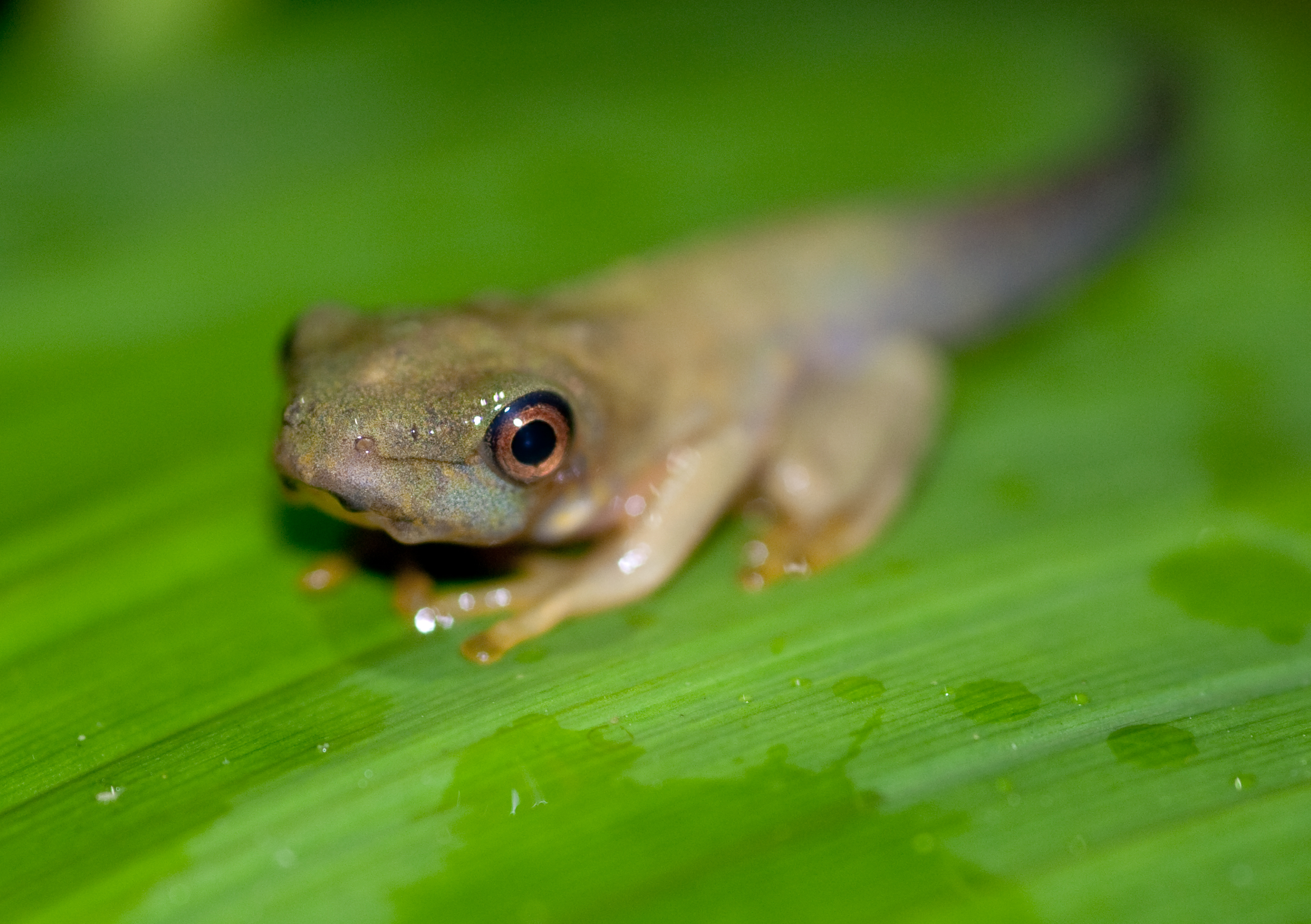 Red-eyed Tree Frog (Agalychnis callidryas) recent metamorph